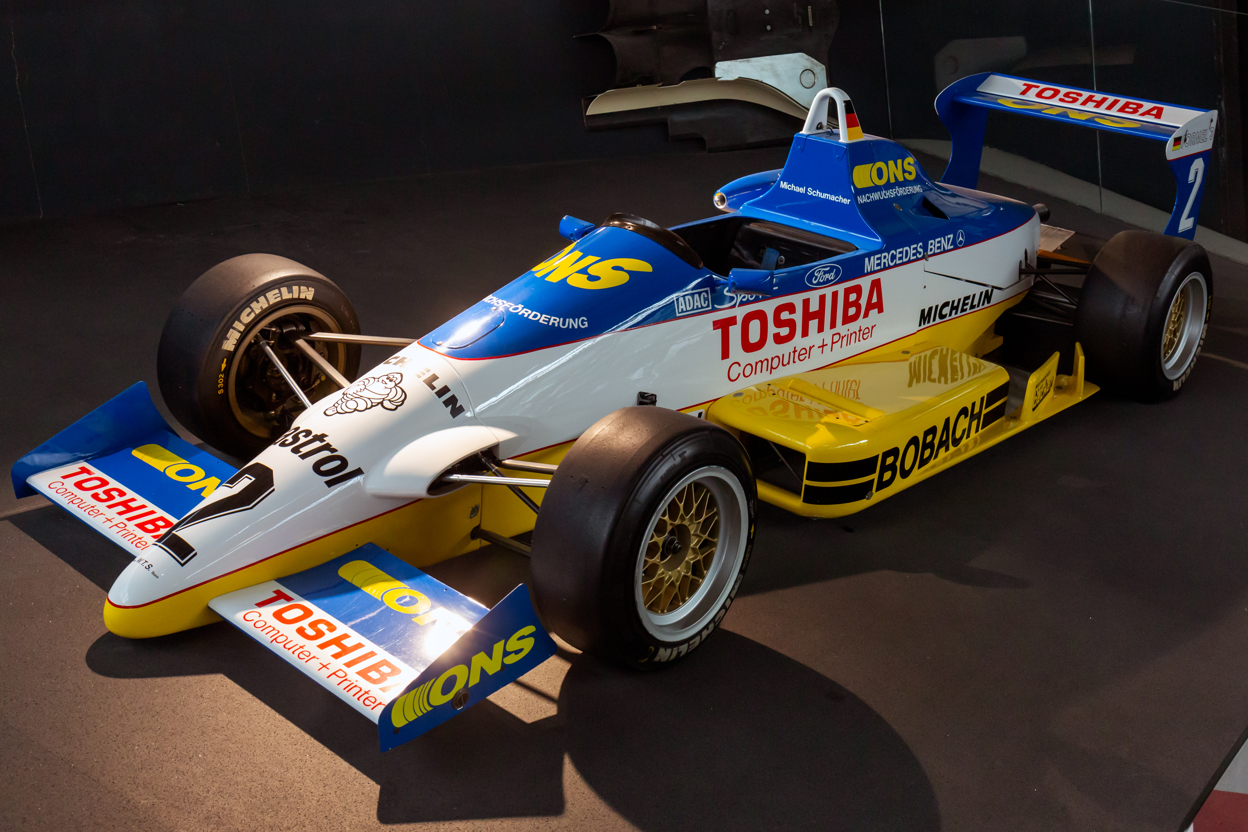 Michael Schumacher Private Collection: Reynard 893 of Michael Schumacher